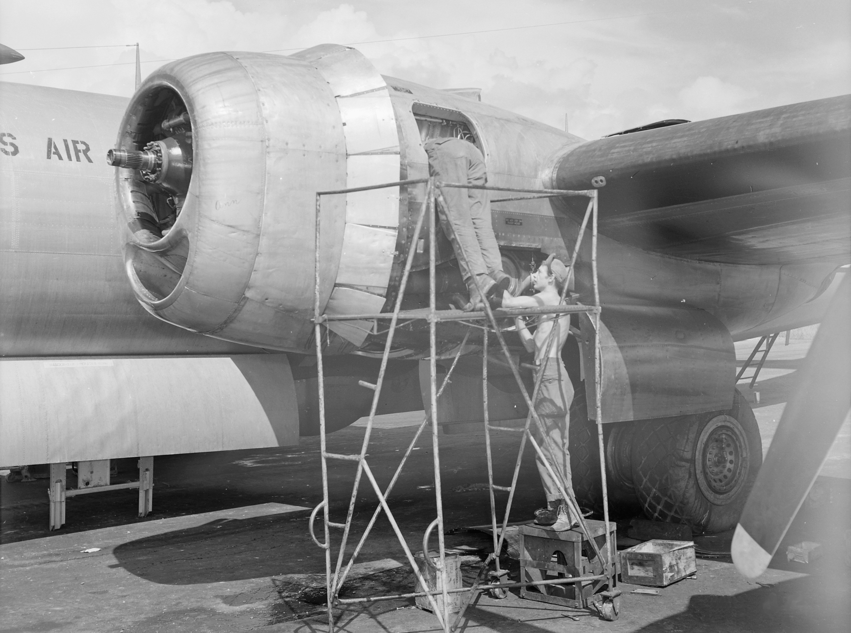 Maintenance on a Wright R-3350 engine of a U.S. Air Force Boeing B-29 Superfortress at Kadena Air Base, Okinawa (Japan). Original caption: "Cpl. John J. Green, 19, mechanic from Eugene, Oregon, looks into the powerful engine as Cpl. Robert L. Cover, 22, airplane mechanic, of Joplin, Missouri (right) helps from the outside as the two men change a turbo-supercharger on a Boeing B-29 Superfort at an Air Force base in Okinawa, Ryukyu Retto., ca. 09/12/1950"